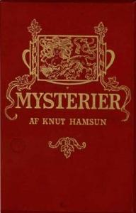 Mysteries (novel) 1st edition